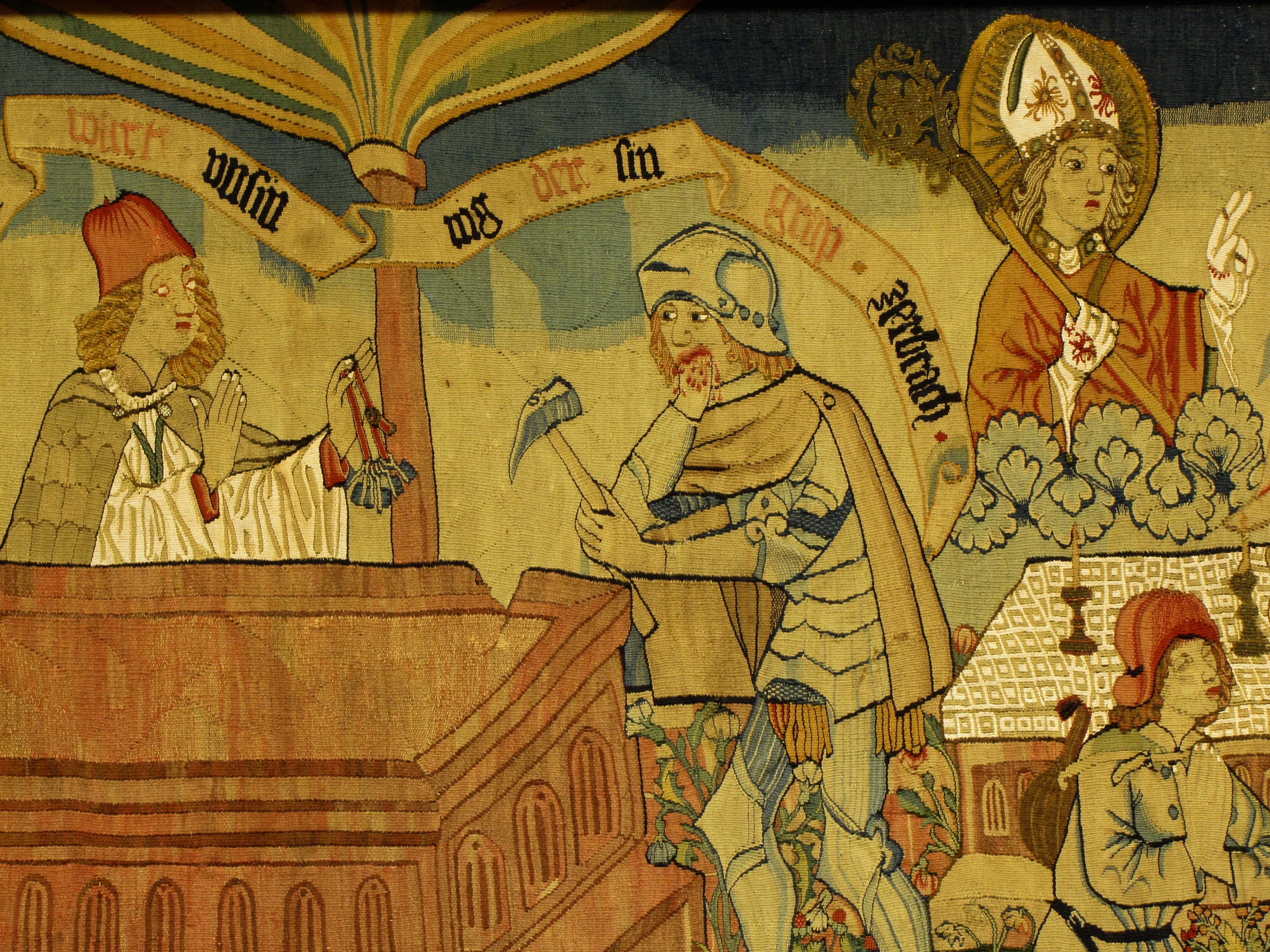 Alsace, Bas-Rhin, Neuwiller-lès-Saverne, Église abbatiale Saints-Pierre et Paul (PA00084820, IA67009917, Chapelle Saint-Sébastien, chapelle haute du chevet (XIe). Tapisseries "Scènes de la vie de Saint-Adelphe" (XVIe): les miracles reprennent grâce aux reliques. This object is classé Monument Historique in the base Palissy, database of the French furniture patrimony of the French ministry of culture, under the references PM67000188 and IM67015596.